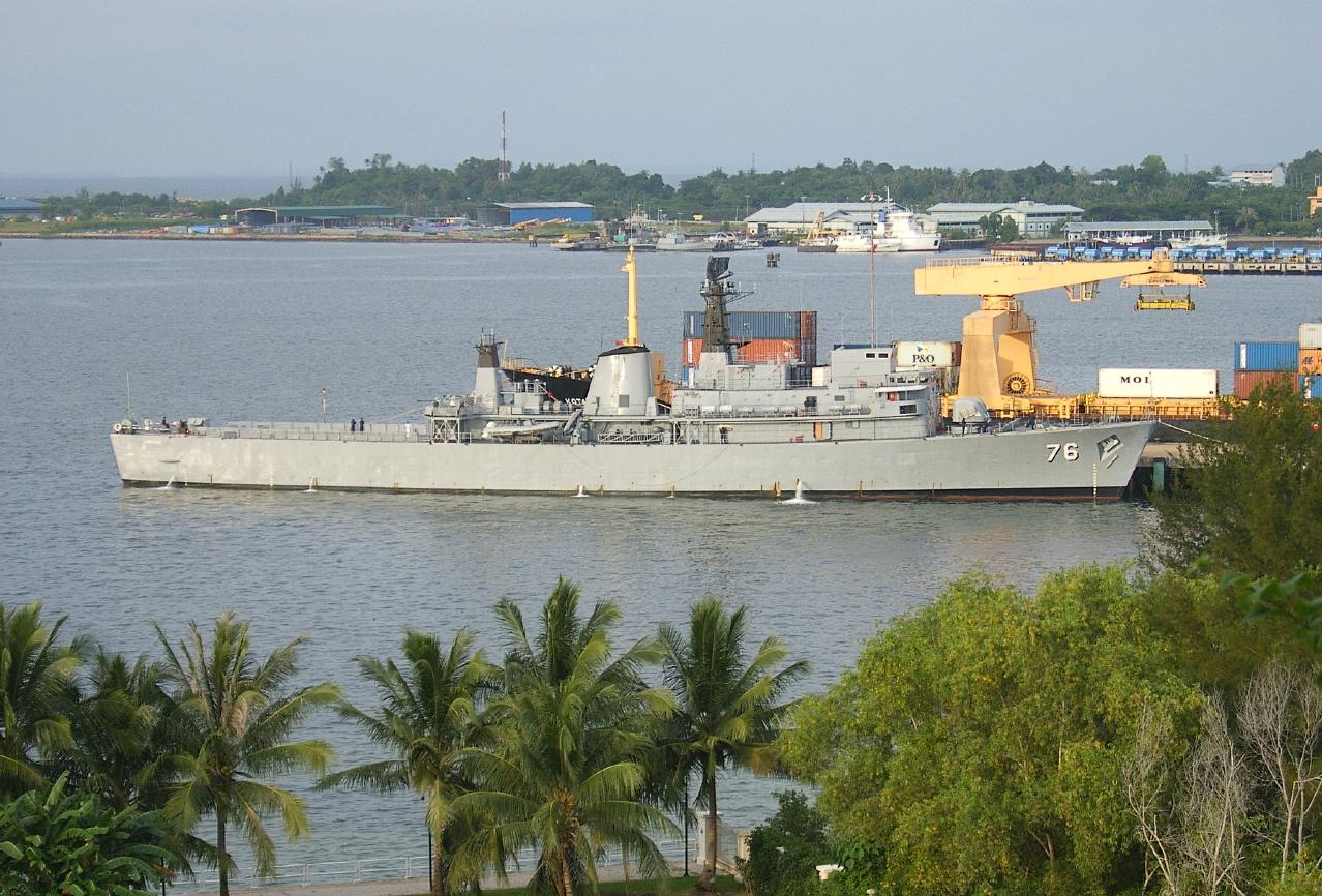 The Malaysian Frigate, KD Hang Tuah alongside Pulau Labuan. 15 September 2007.